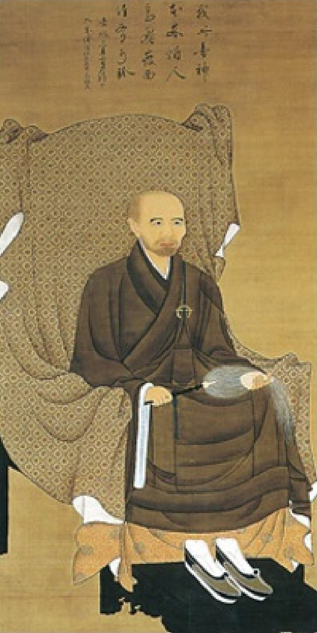 Garin daishi